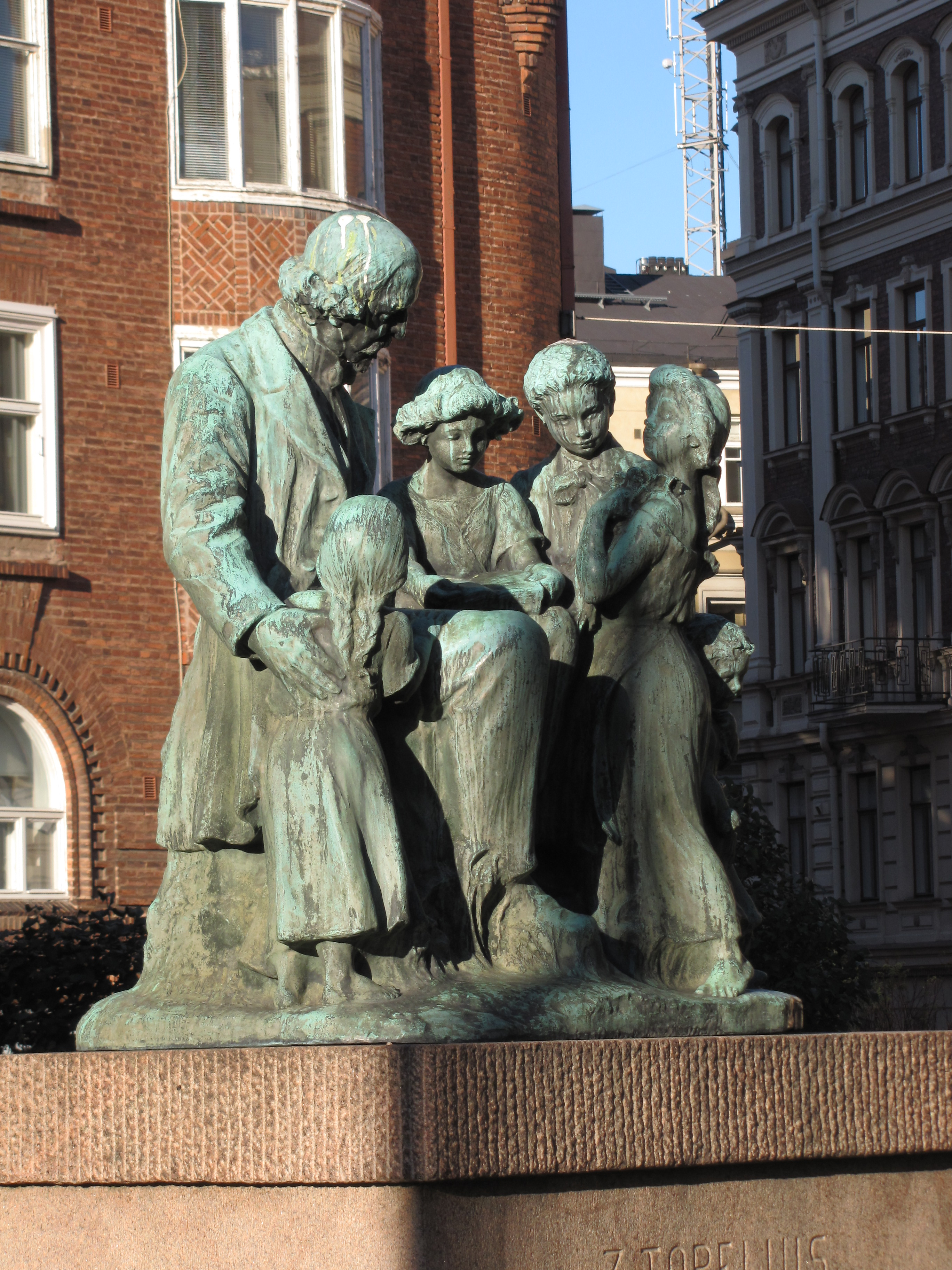 Topelius and children statue sculpted by Ville Vallgren (1855–1940) as a memorial for Zacharias Topelius. Statue was sculpted in 1909 but casted bronze and erected in 1932.